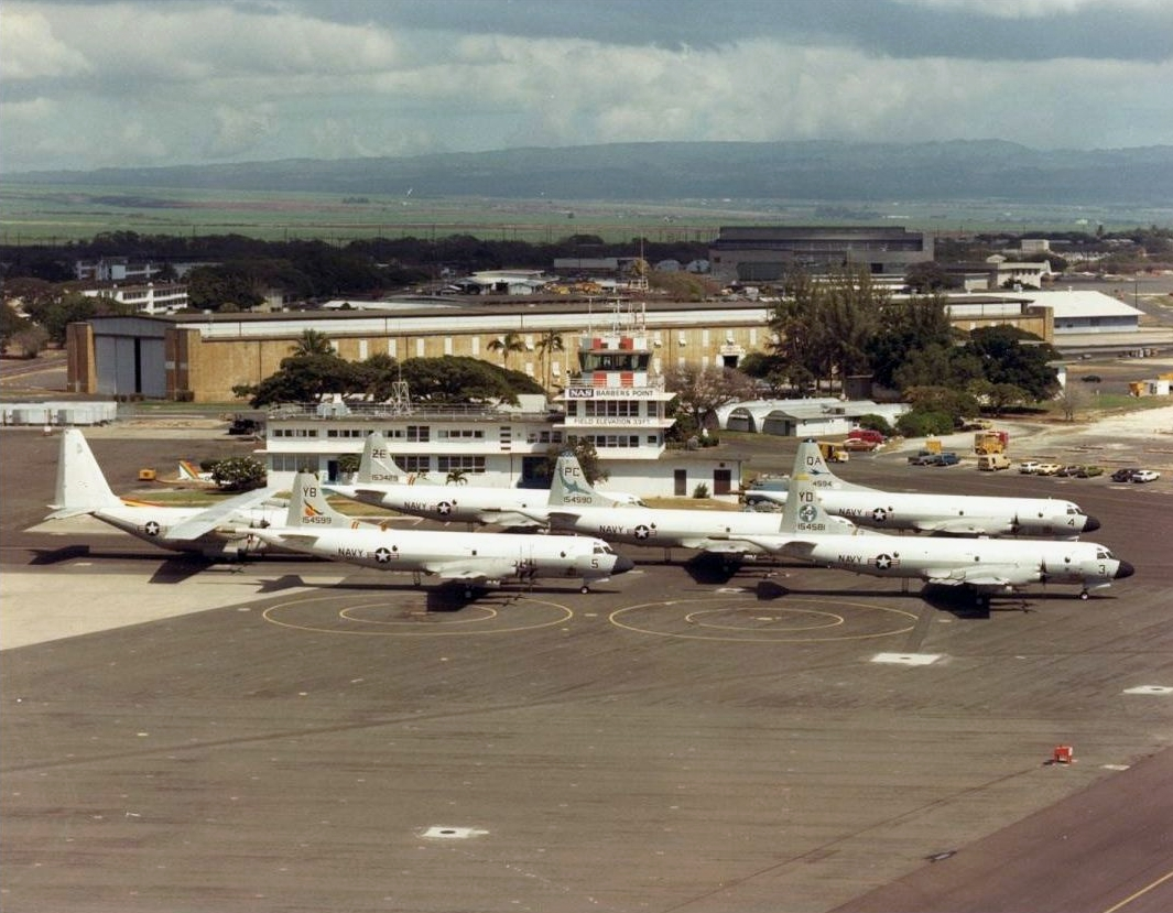 Five U.S. Navy Lockheed P-3B Orion aircraft and a Lockheed C-130F Hercules of Patrol Wing 2 at Naval Air Station Barbers Point, Hawaii, in the 1970s. The following aircraft are visible (l-r): C-130F; P-3B (BuNo 154599, YB-5) , Patrol Squadron VP-1; P-3B (BuNo 153429, ZE-x), VP-17; P-3B (BuNo 154590, PC-x), VP-6; P-3B (BuNo 154581, YD-3), VP-4; P-3B (BuNo 154594, QA-4), VP-22.